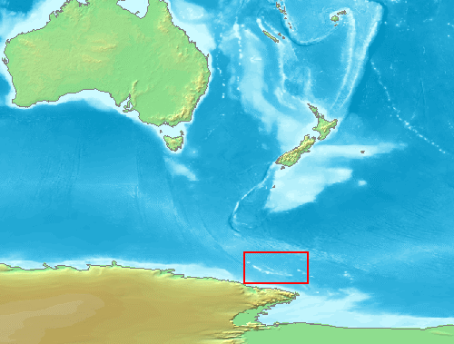 Balleny Islands.PNG